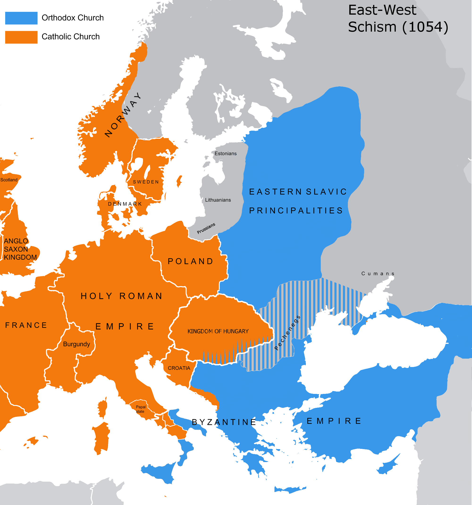 The map of the eastern/western allegiances in 1054 with the former country borders. Please, even if you trust only the modern national points of view about the past, don't erase the existence of the orthodox slavs and others in Eastern Hungary (proven by slavonic inscriptions Црковнъ писаный). Thank you.